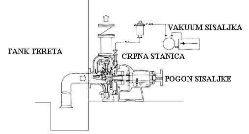 design of tanker pumping station